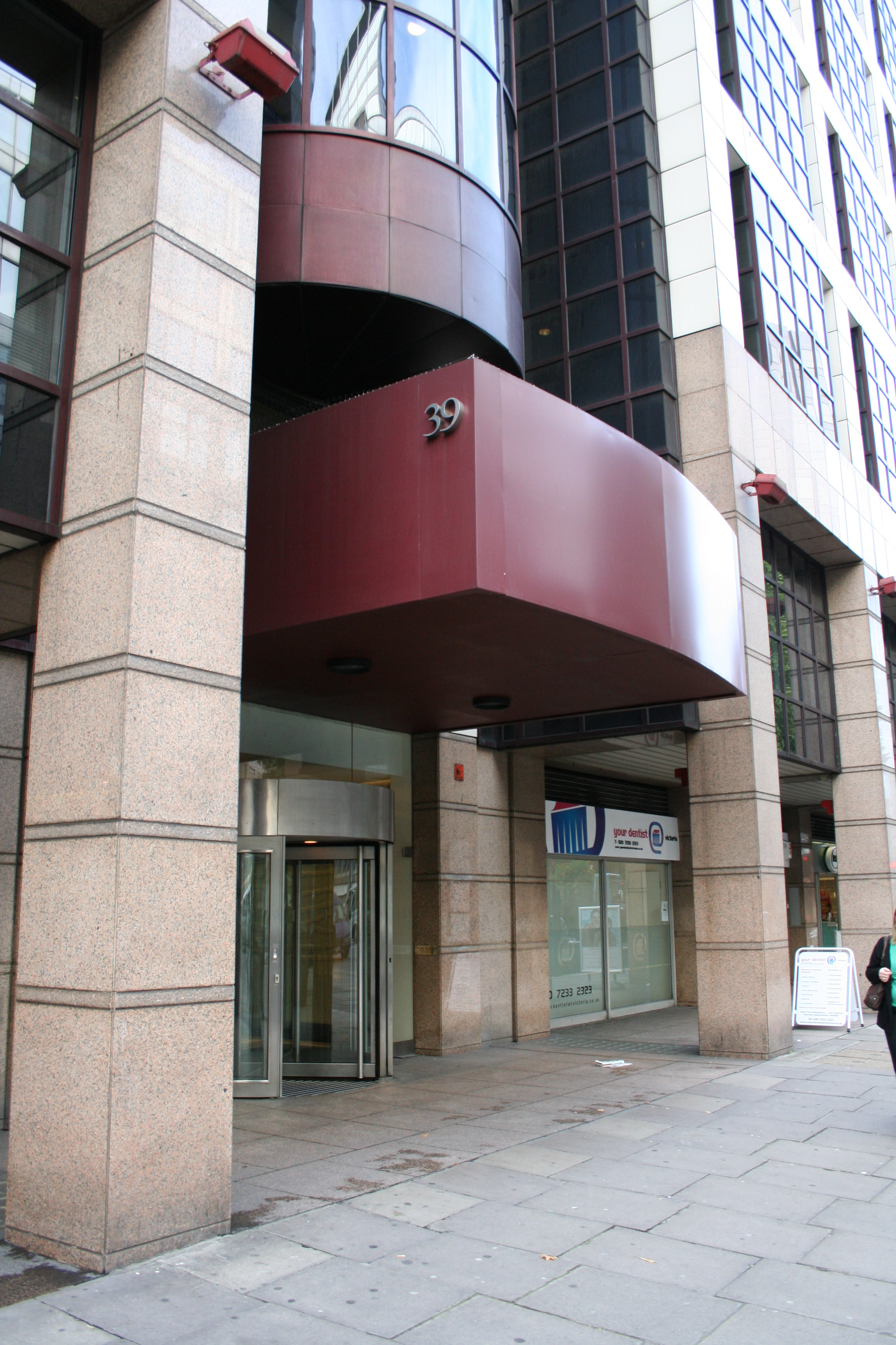 The Labour Party Headquarters in Victoria Street, London